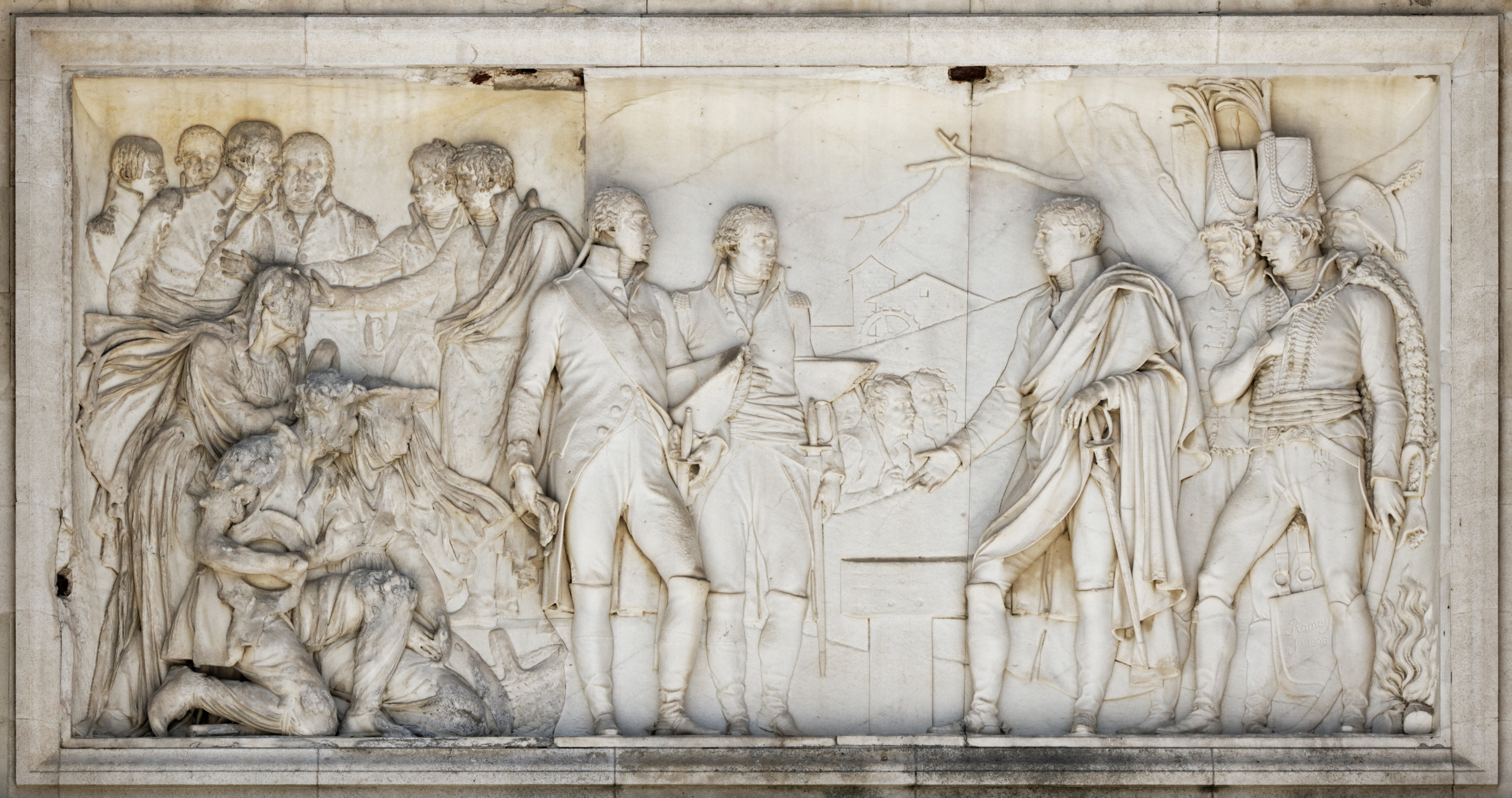 L'Entrevue de Tilsit by Claude Ramey, Arc de Triomphe du Carrousel, Paris, France.